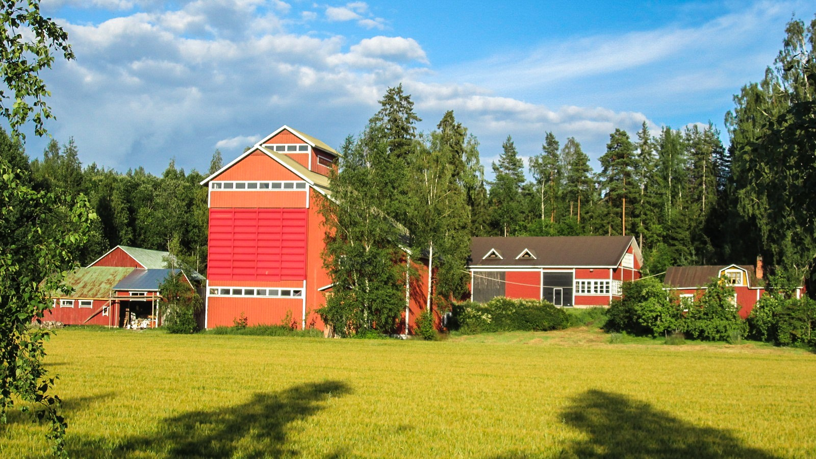 Contemporary farm in Southern Finland